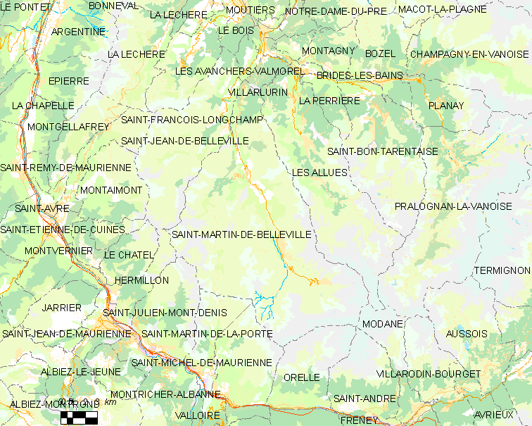 Map of French municipality